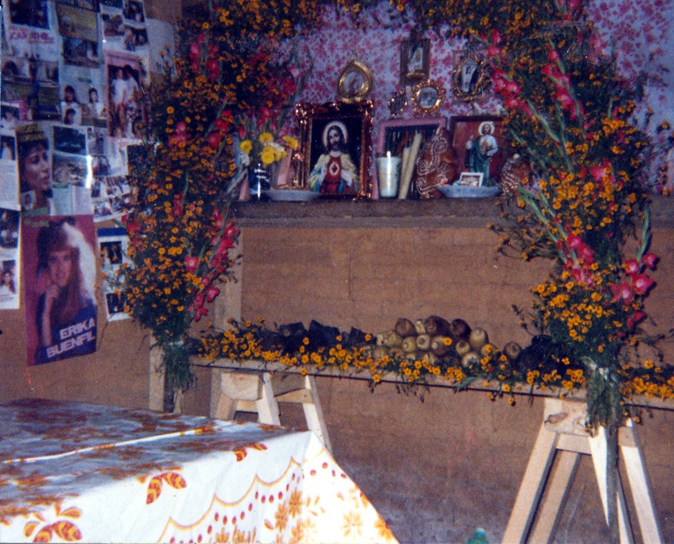 ayutla ofrenda